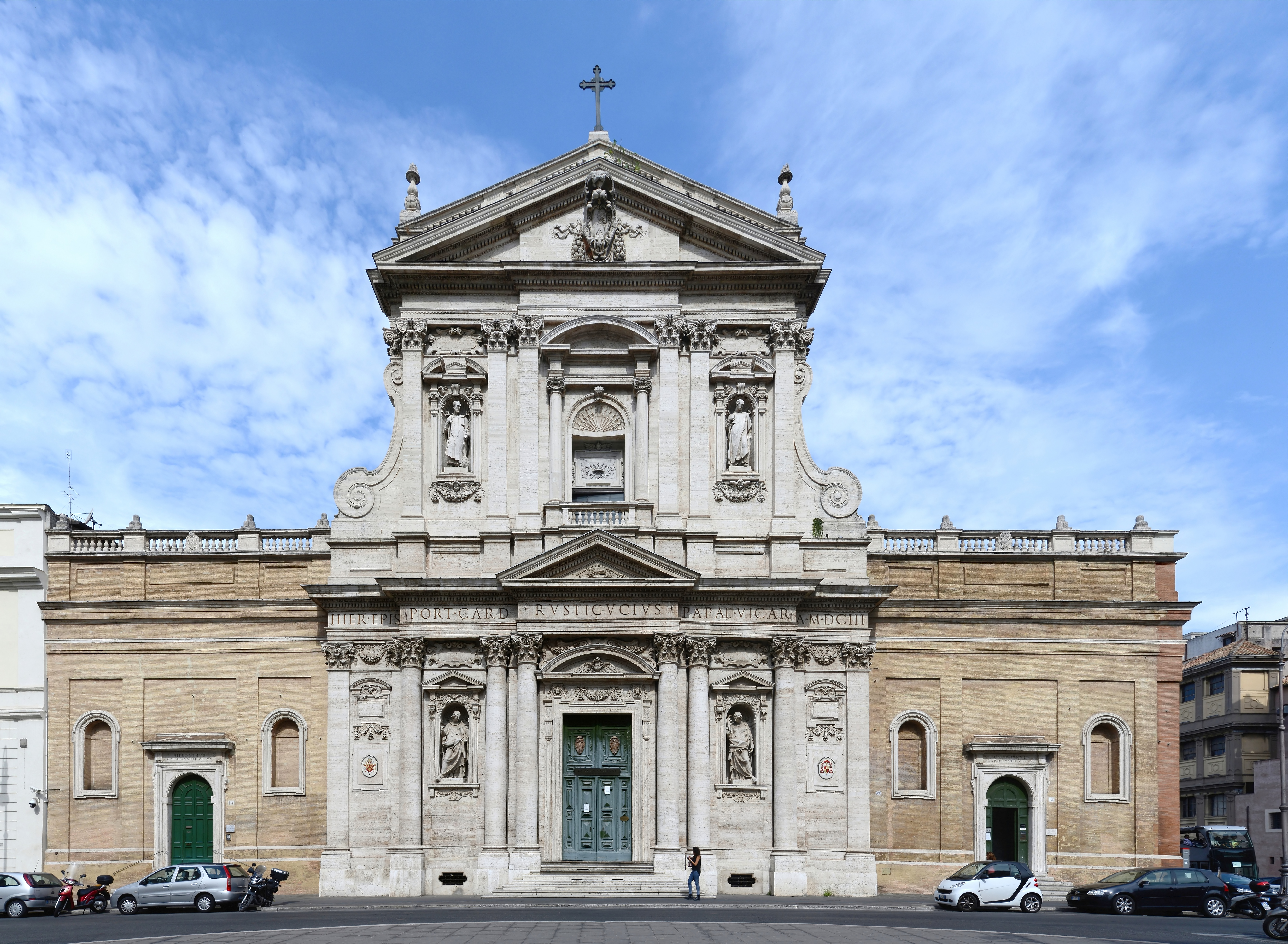 Church of Santa Susanna, Rome